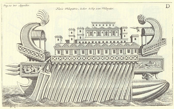 Drawing of Thalamegos, a huge twin-hulled catamaran commissioned by Egyptian king Ptolemy IV Philopator|Ptolemy IV Philopator ca. 200 BCE. Drawing by w: Nicolaes Witsen, 1671.